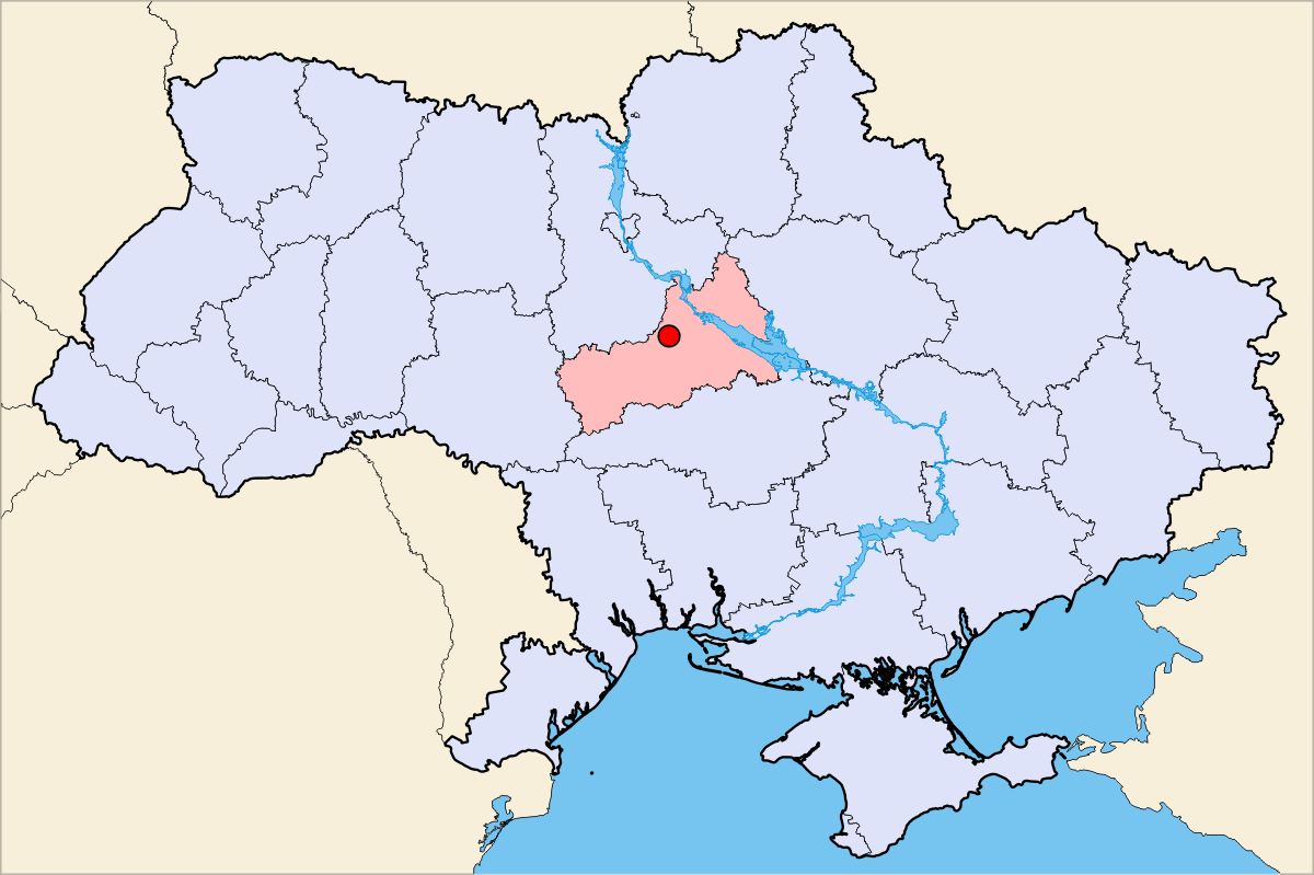 Description = Korsun-Shevchenkivskyy geographical position Source = own work, Skluesener Date = 22.01.2006 Author = Skluesener Credits = Colours chosen according to a map of steschke